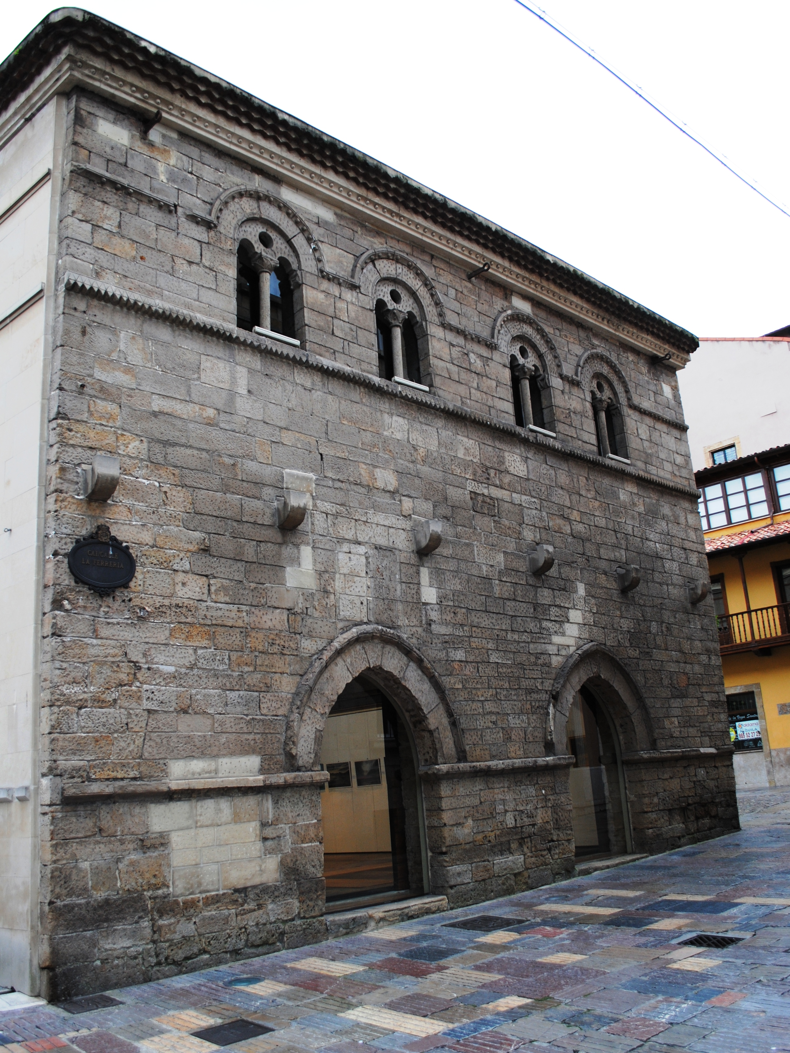 See title.